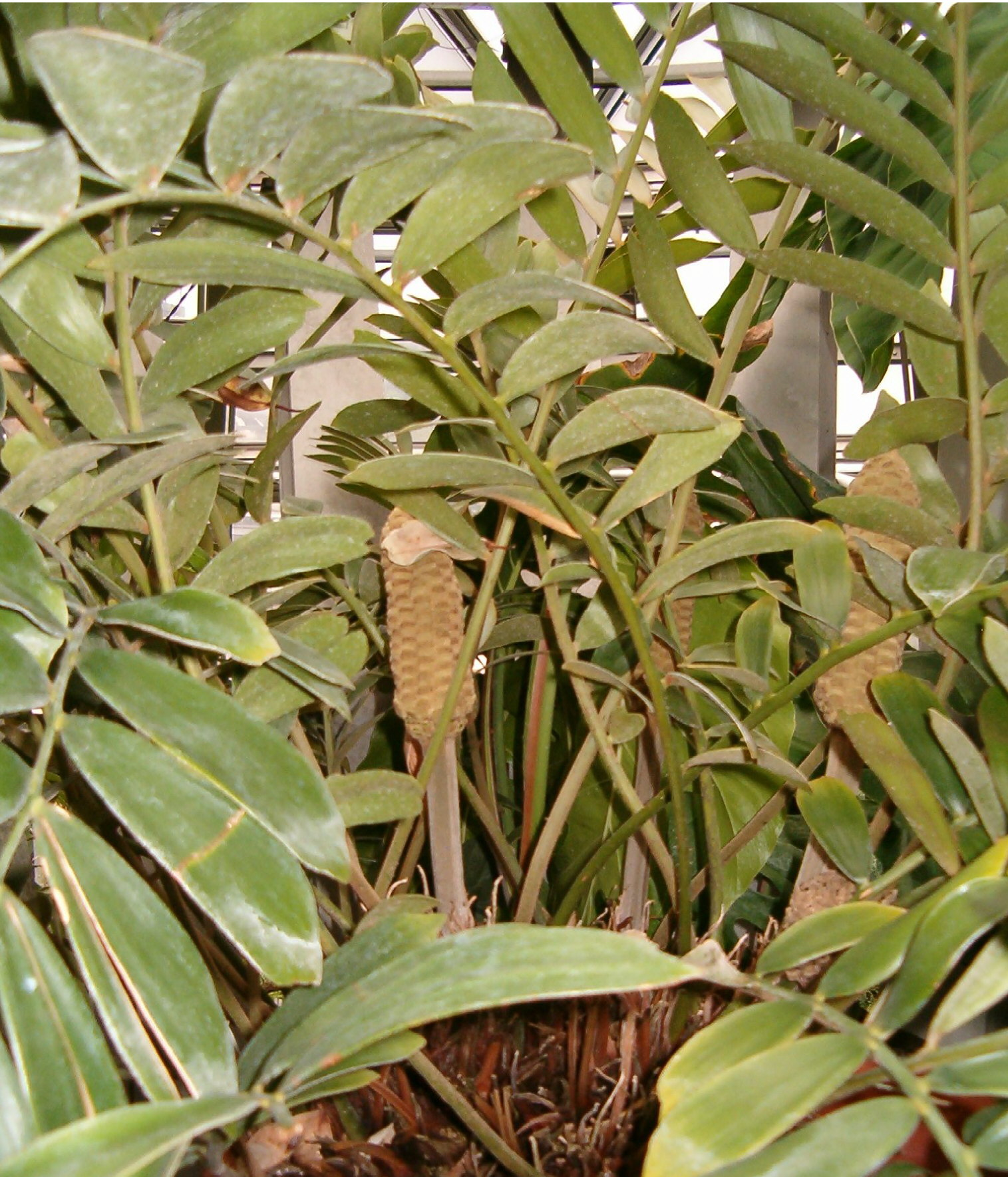 Location: Botanical Gardens Berlin Leaves and Cones